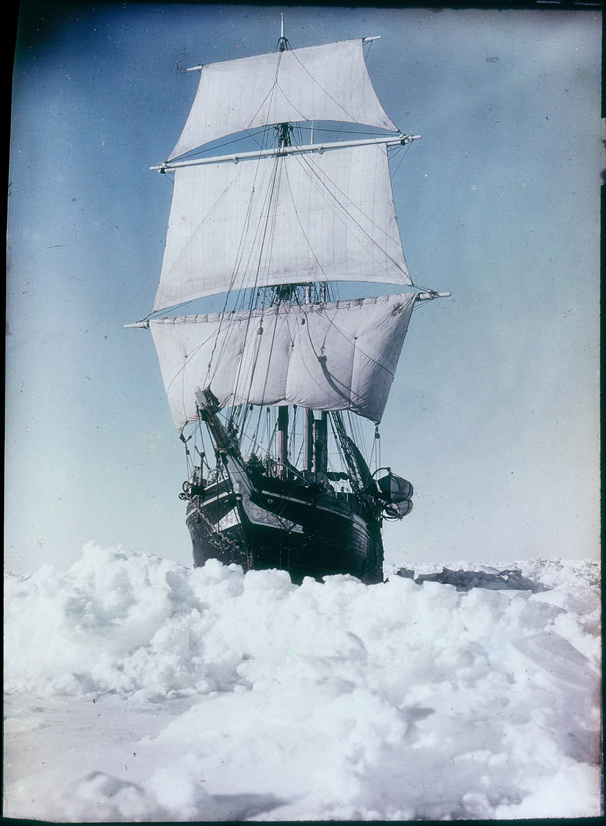 Format: Glass Paget plate phototransparency Notes: Frank Hurley colour Paget plates of Ernest Shackleton's 'Endurance' expedition to Antartica, 1915 Frank Hurley visited the Antarctic six times between 1911 and 1932. For more information and pictures, visit Discover Collections: Hurley's Antarctica on the State Library of NSW's website: Find more detailed information about this photographic collection: .au/item/itemDetailPaged.aspx?itemID=411964 Information about photographic collections of the State Library of New South Wales: .au/search/SimpleSearch.aspx From the collection of the State Library of New South Wales